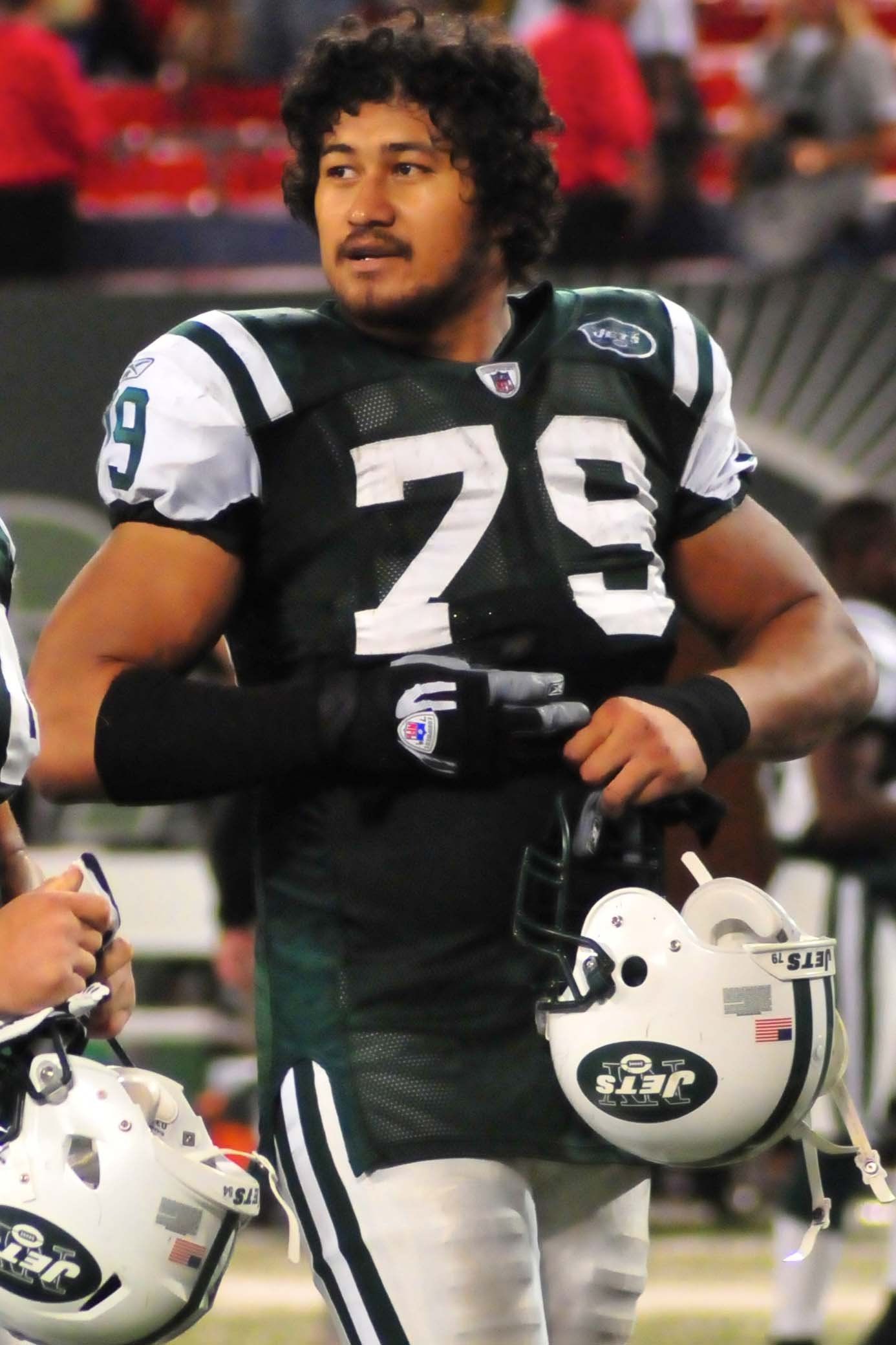 Ropati Pitoitua of the New York Jets.